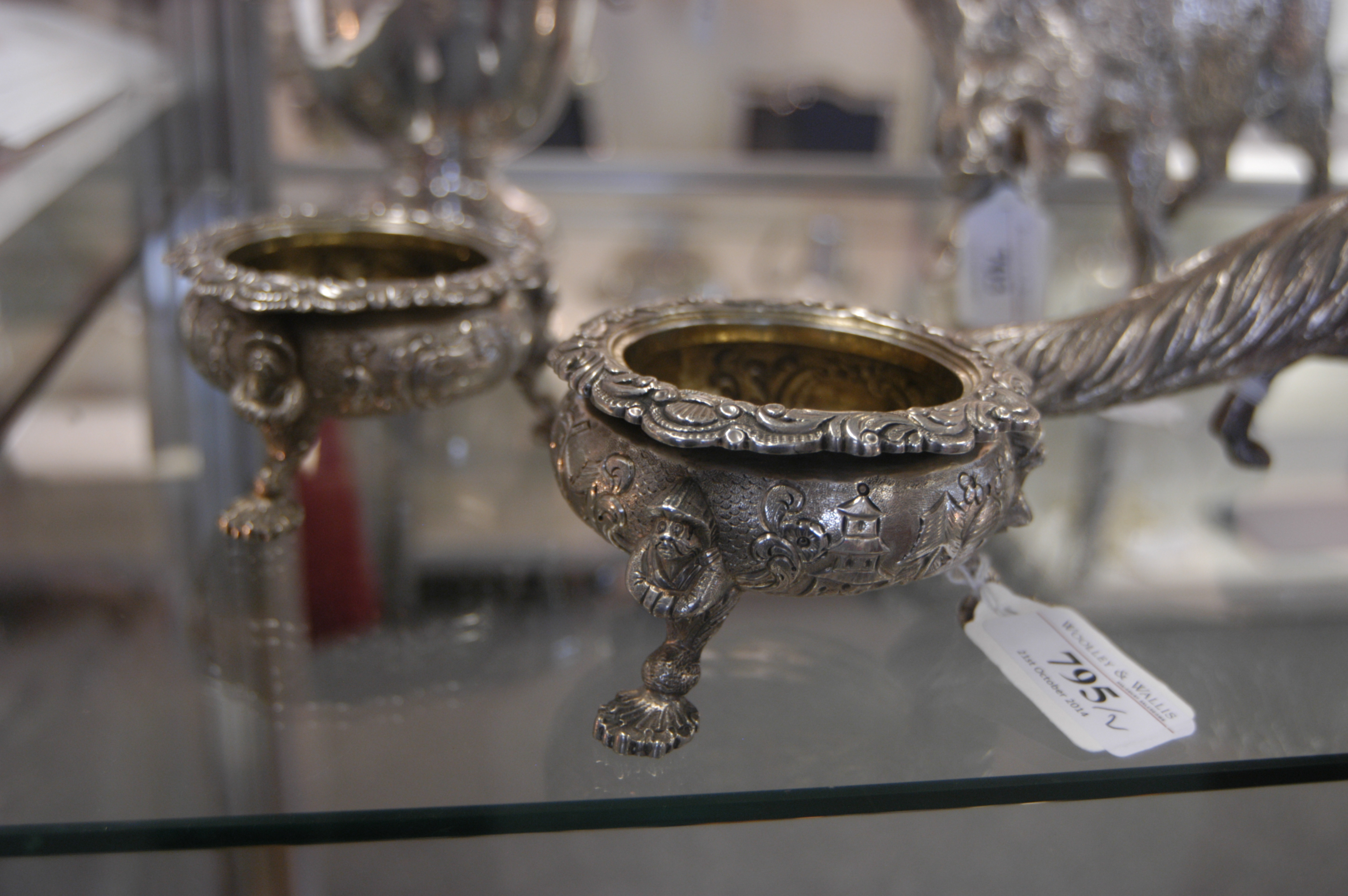 Photo by me (R. de Salis Rodolph (talk) 00:05, 23 November 2014 (UTC)) of a pair of George IV Irish silver Chinoiserie salt cellars, by William Nowlan, Dublin, 1825.